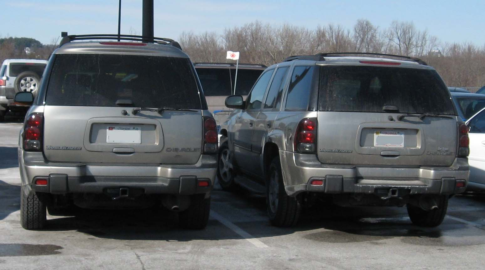 Chevrolet TrailBlazer EXT (left) and regular-length Chevrolet TrailBlazer (right). Note the height difference. Photographed in USA.